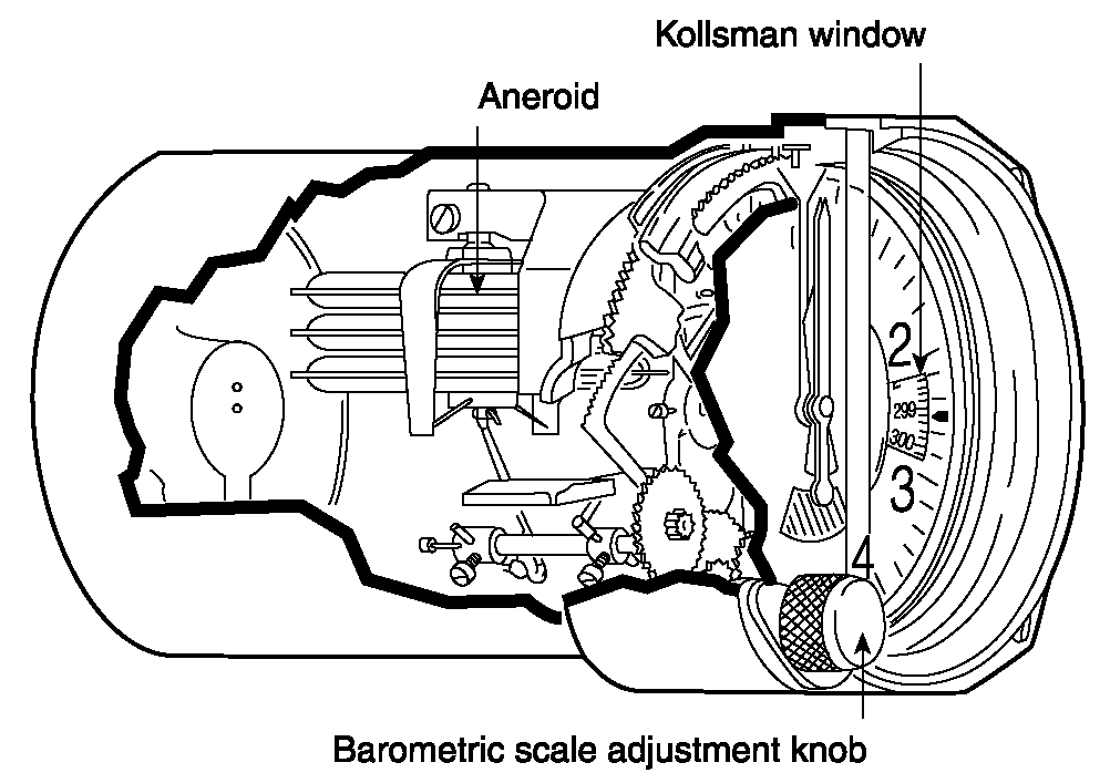 Source: Instrument Flying Handbook (IFH) FAA-H-8083-15. [Update 25 Nov 05]